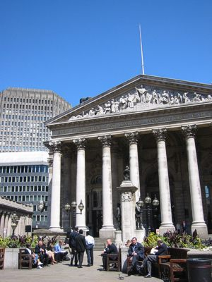 Royal Exchange, London (exterior)